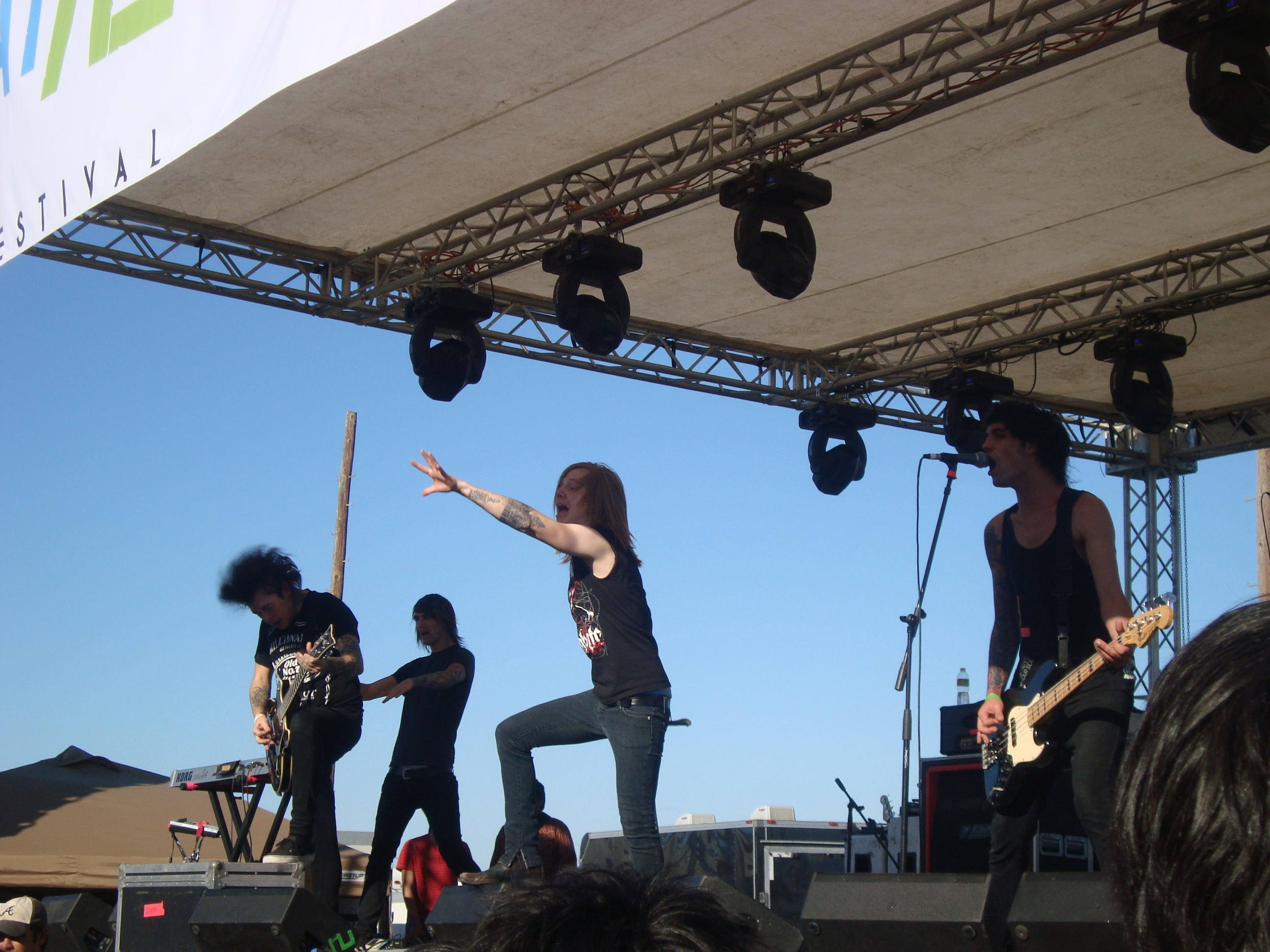 Picture I took at a music festival.